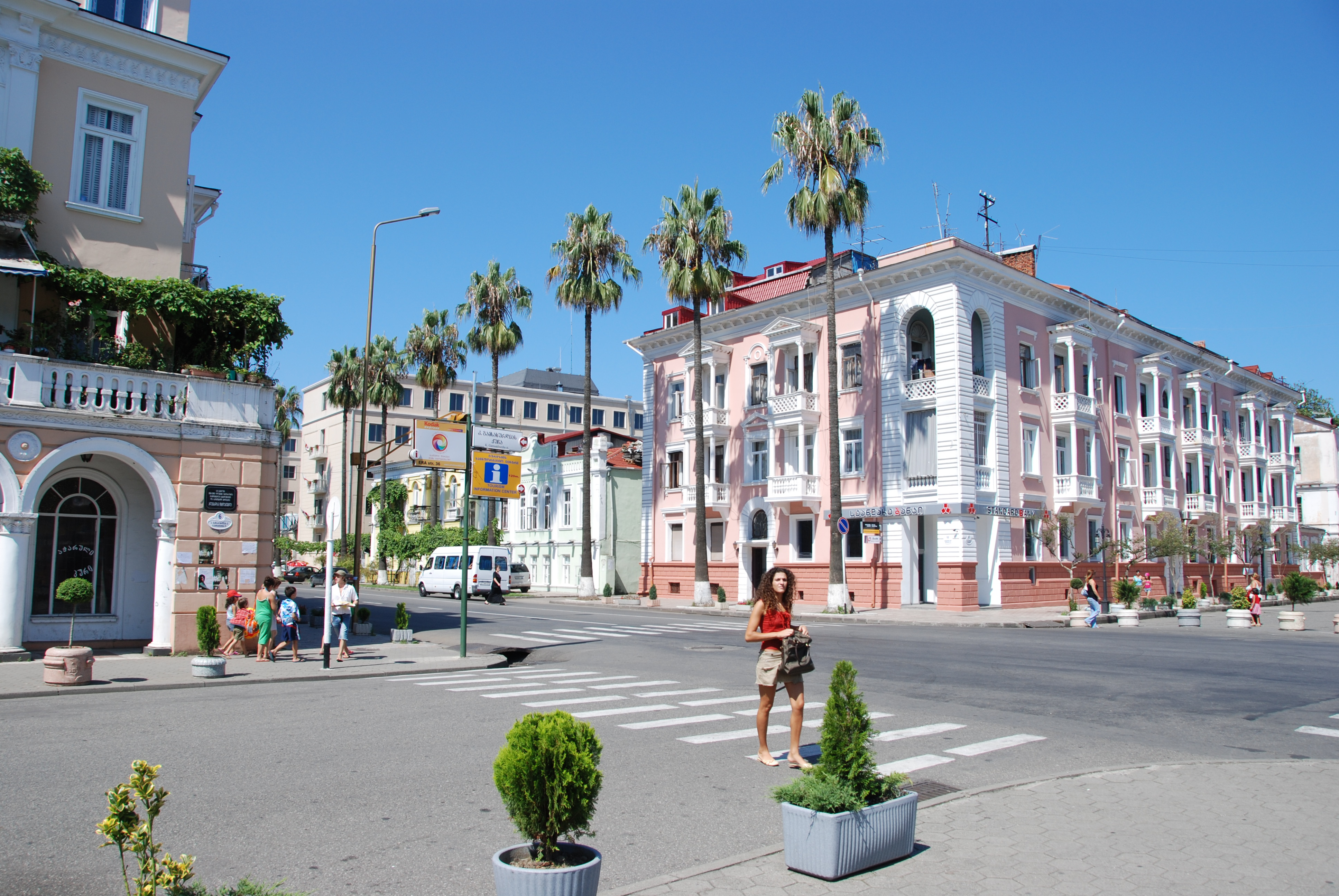 Streets Of Batumi